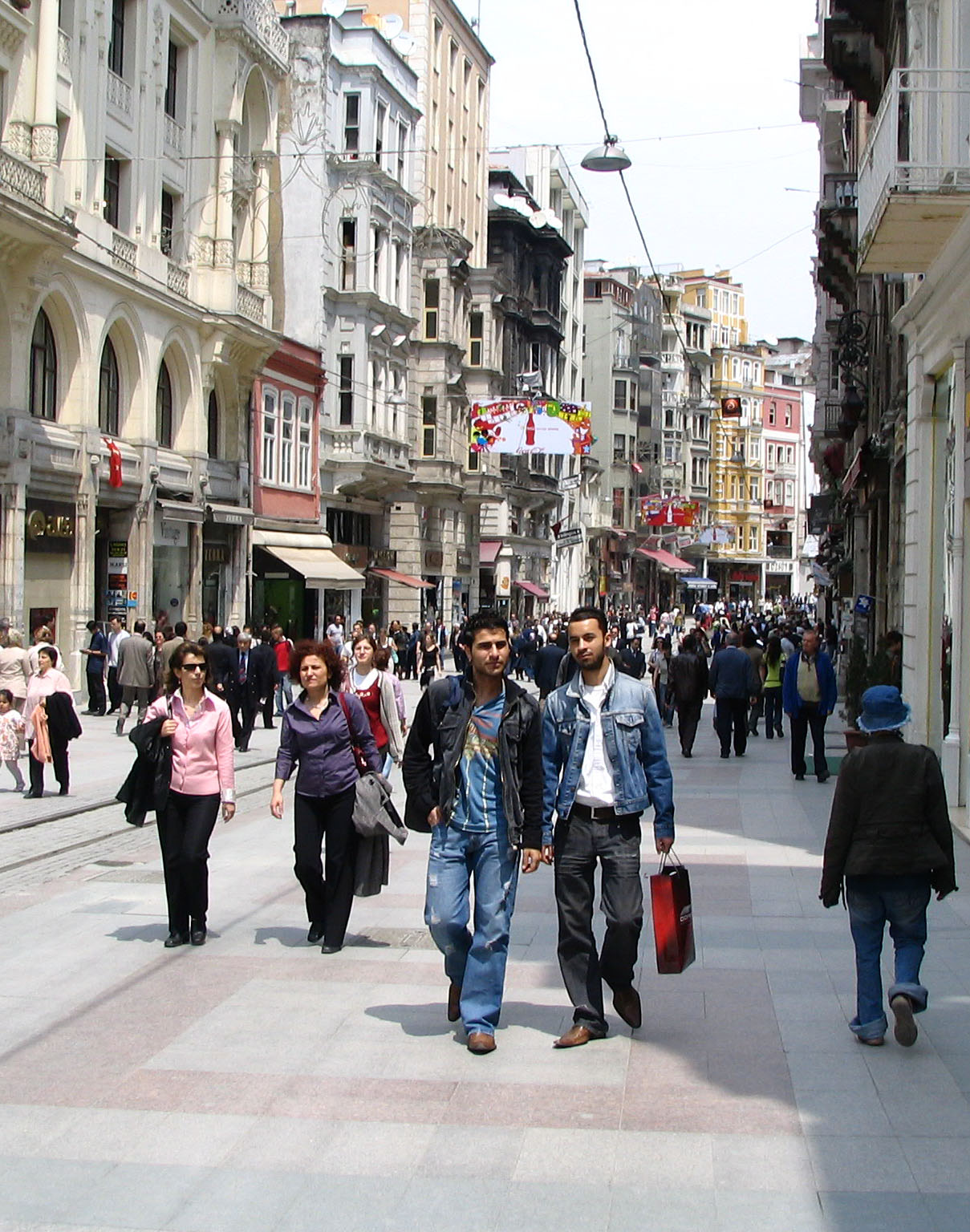 İstiklal Caddesi in Istanbul